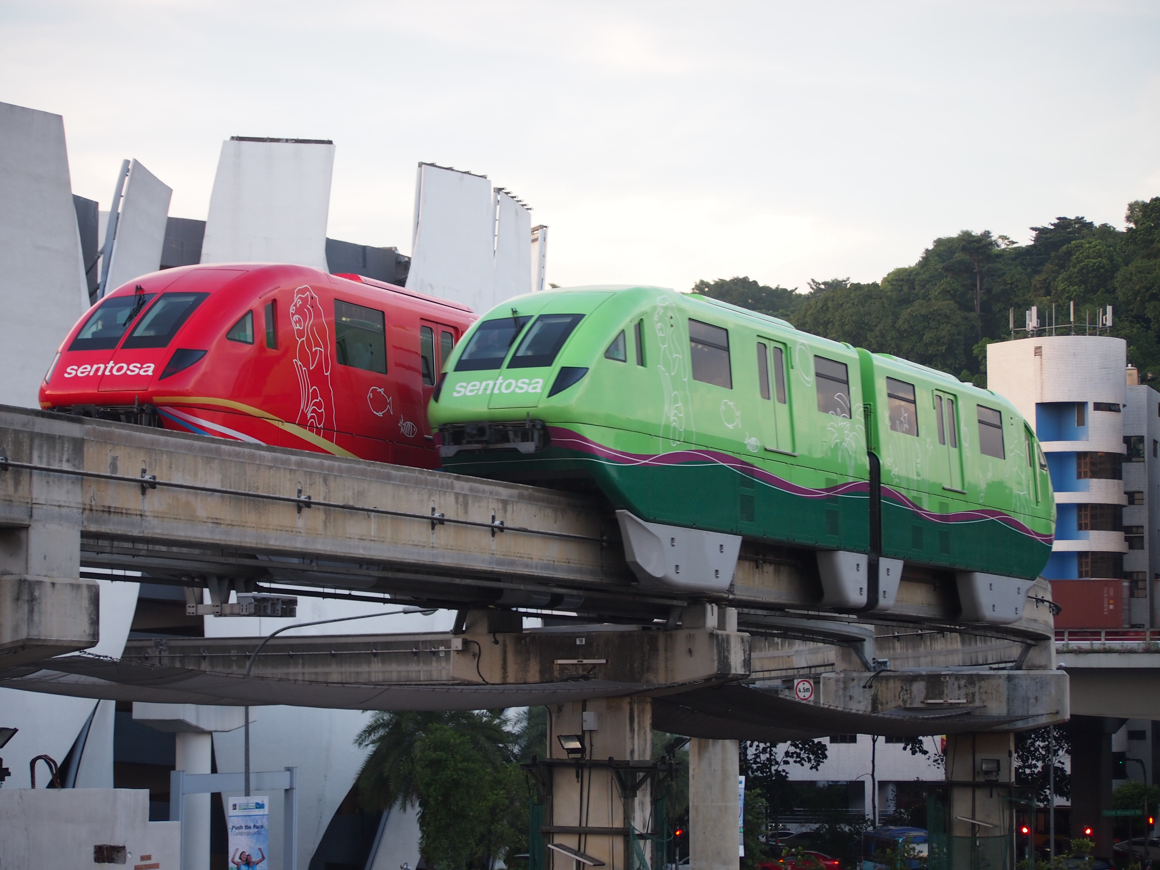 Two Sentosa Express trains passing outside Sentosa Station 中文（香港）: 兩列Sentosa Express列車於聖淘沙車站外交匯